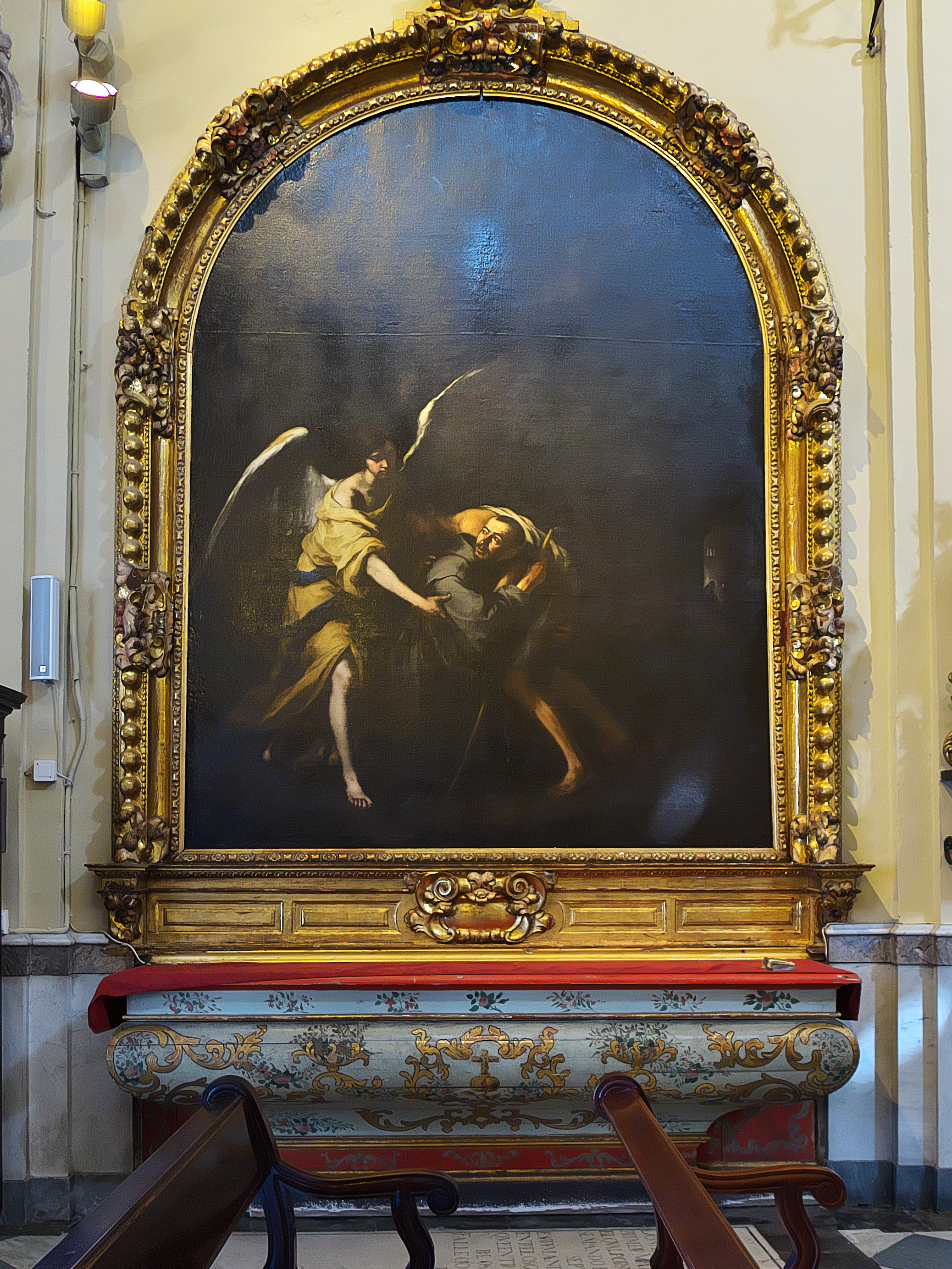 Holy Charity Hospital in Seville. Saint John of God.